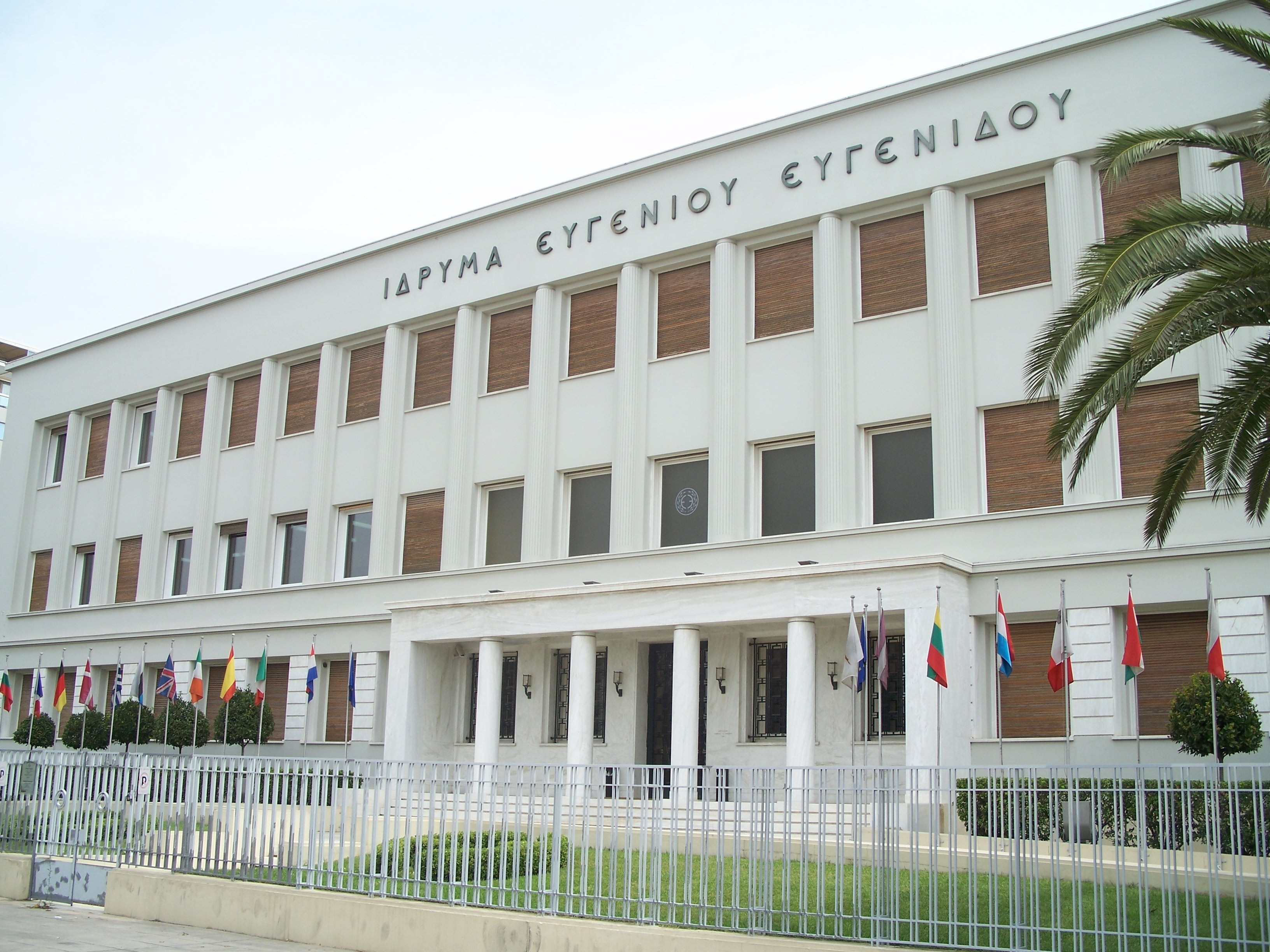 The Evgenides Foundation,located in Faliro, Athens